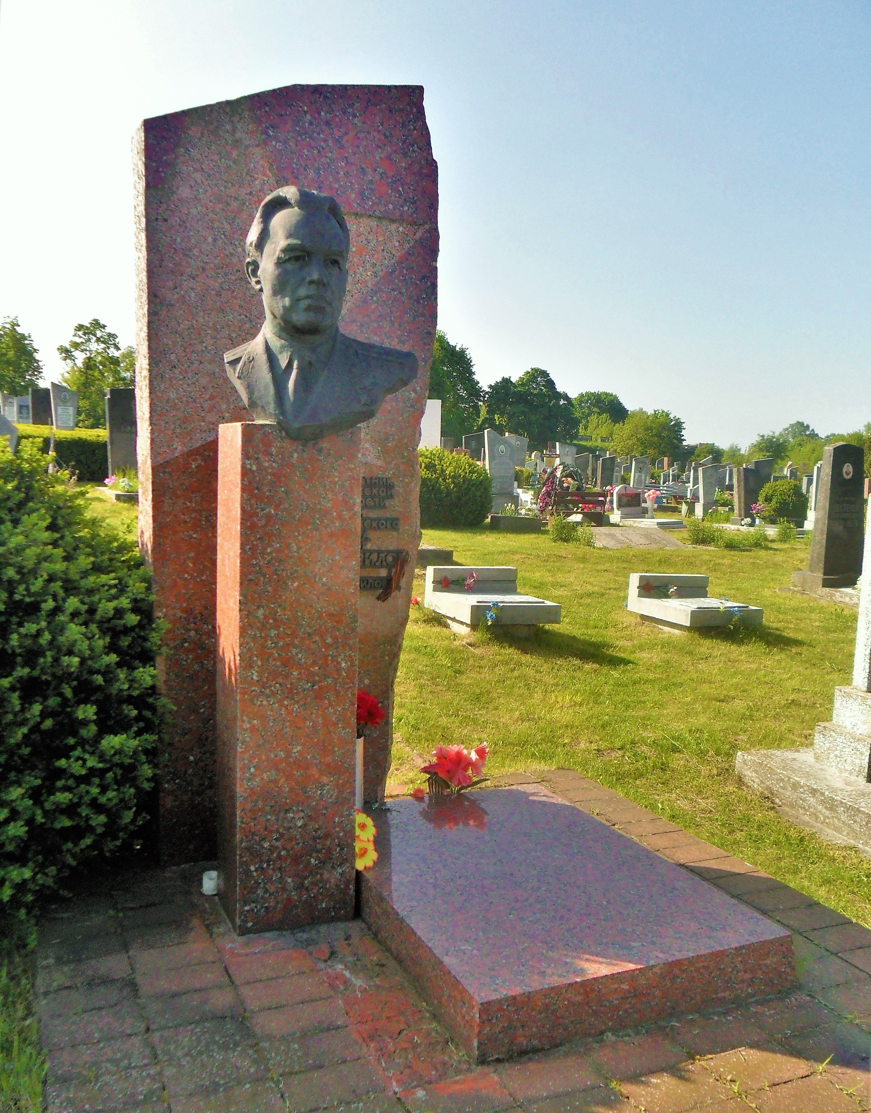 Tomb of the defender of the Brest Fortress the Hero of the Soviet Union, Peter Gavrilov.